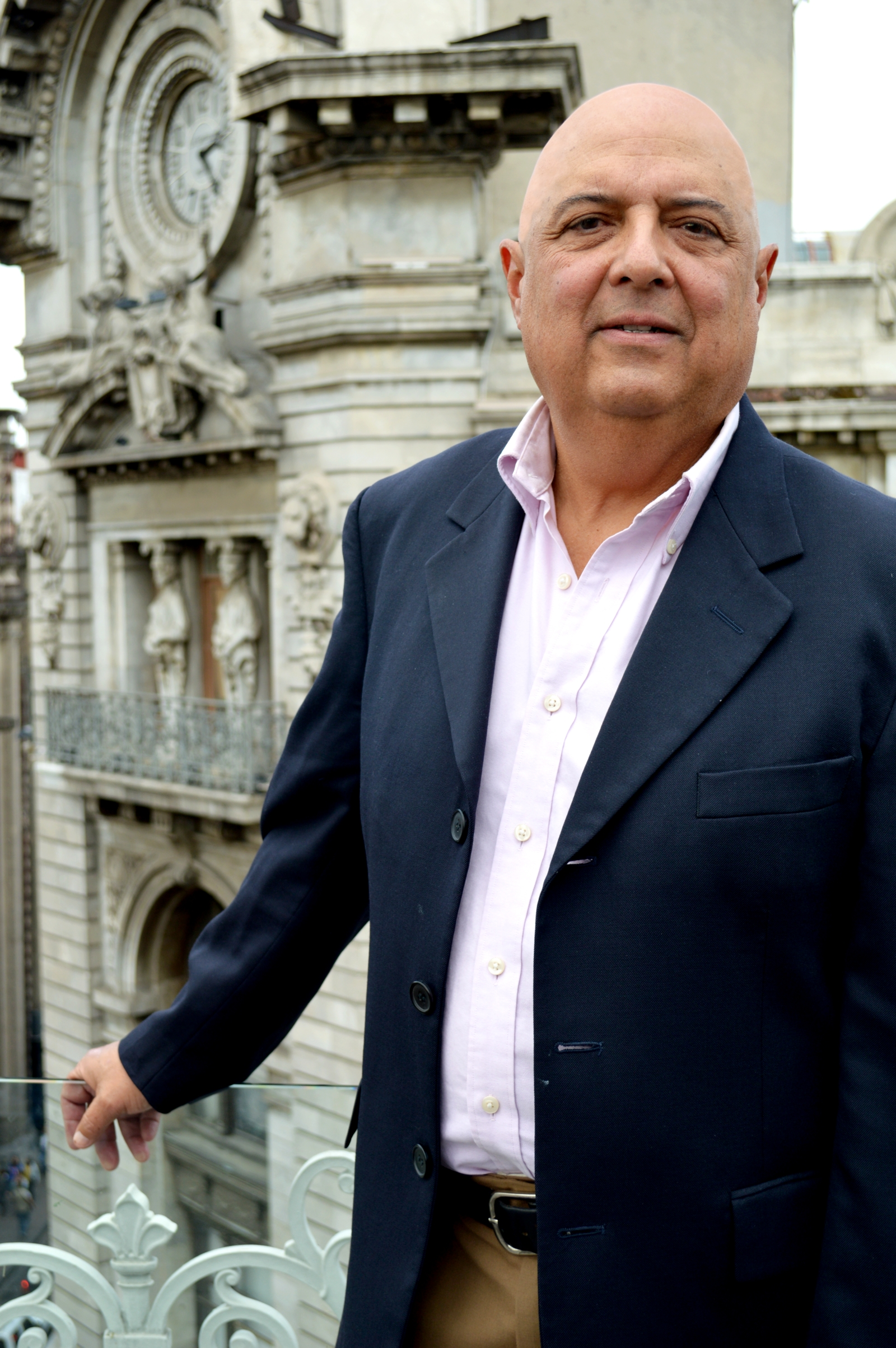 Pablo Kubli at the presentation of the book "Mujeres del Salon de la Plastica Mexicana" vol 1 at the Museo del Estanquillo, Mexico City